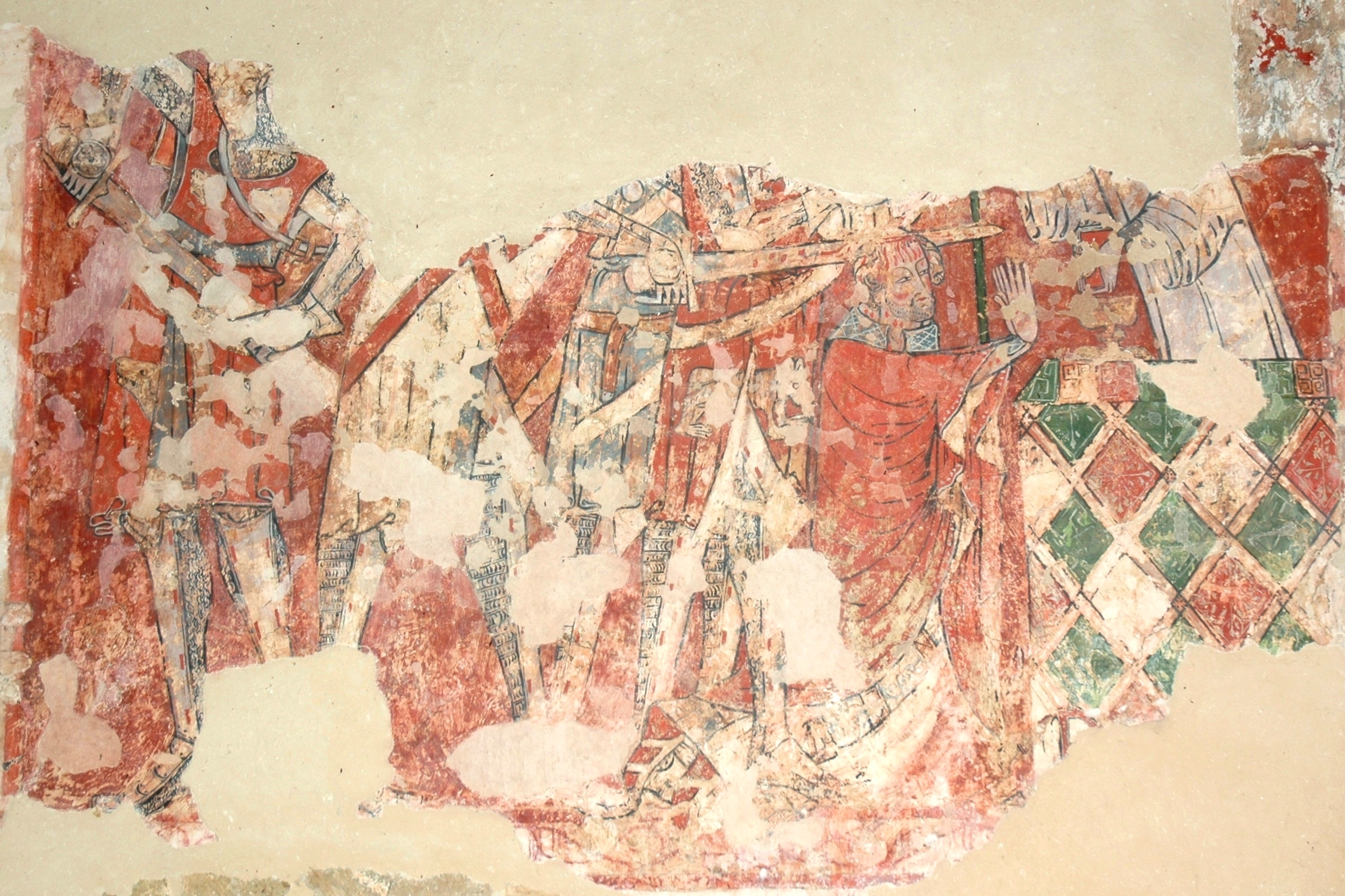 Church of England parish church of St Peter ad Vincula, South Newington, Oxfordshire: 14th-century fresco of the martyrdom of St Thomas Beckett.